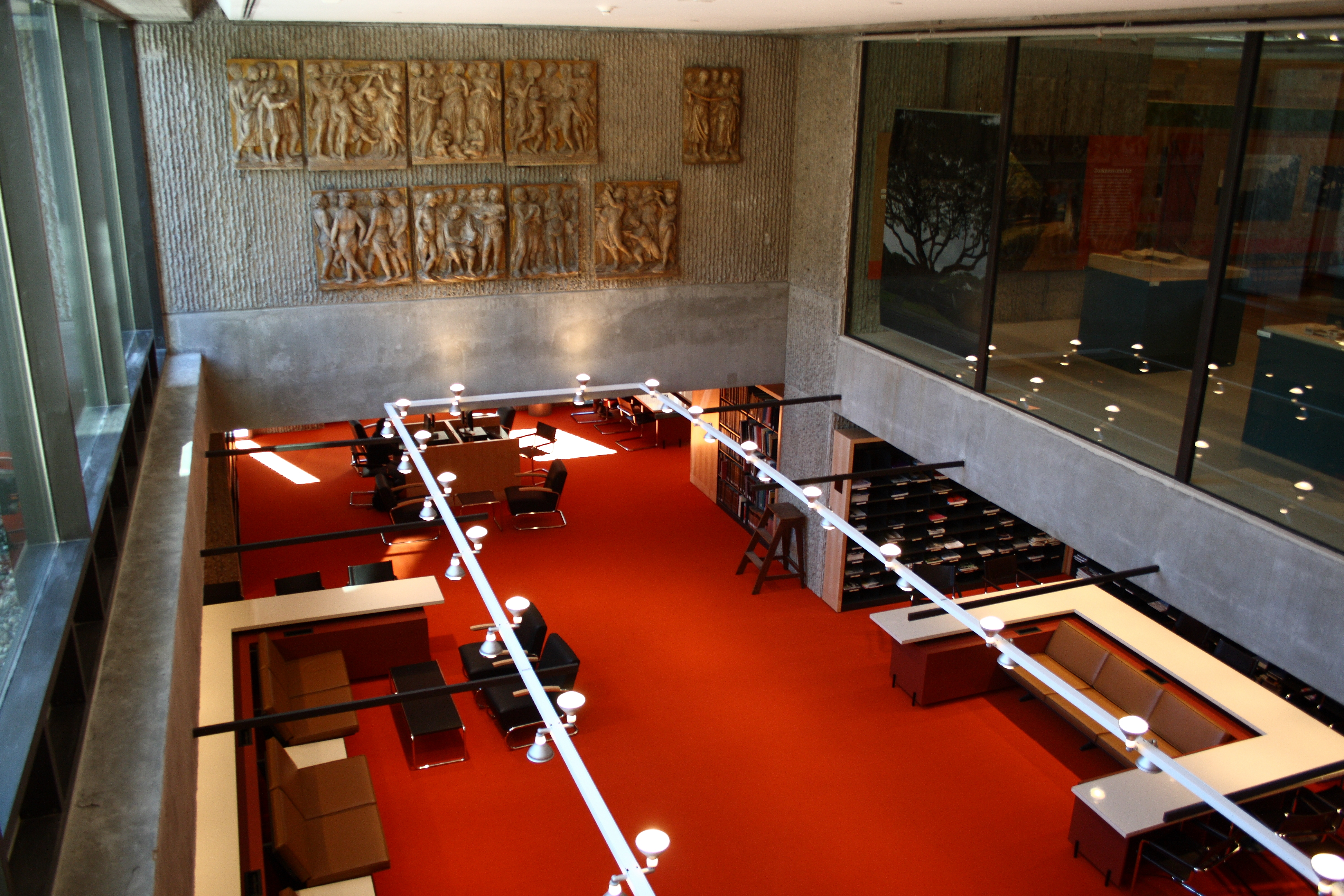 The relocated Art & Architecture Library in the newly expanded Art and Architecture Building at Yale University. - Google Maps - Google Earth